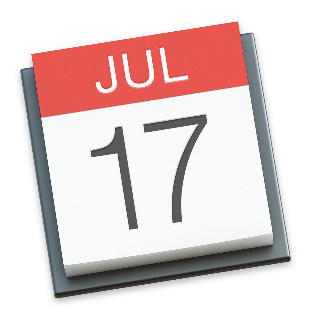 Icon of Apple Calendar software